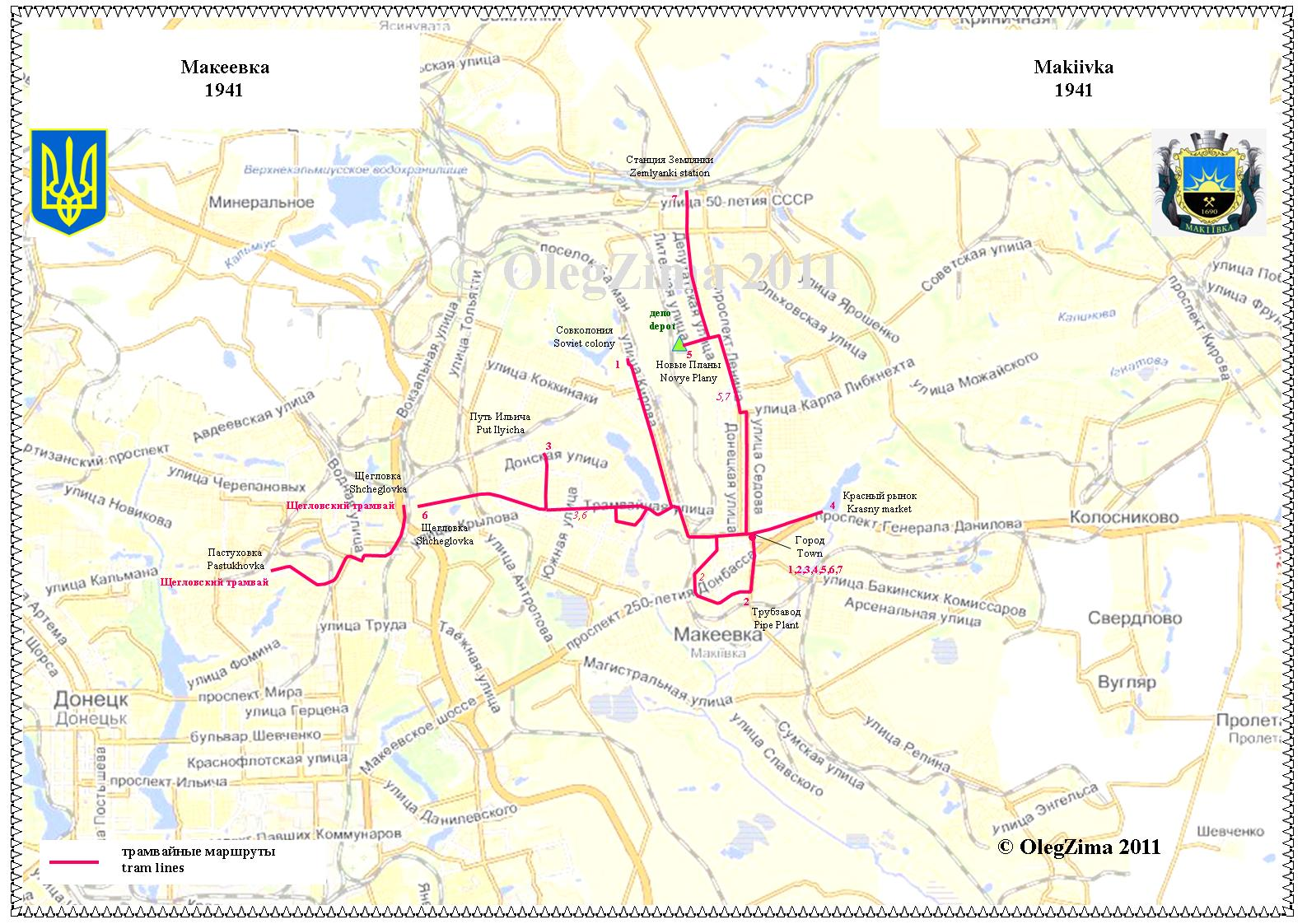 map of transport of Makeevka (Makiivka) city at 1941